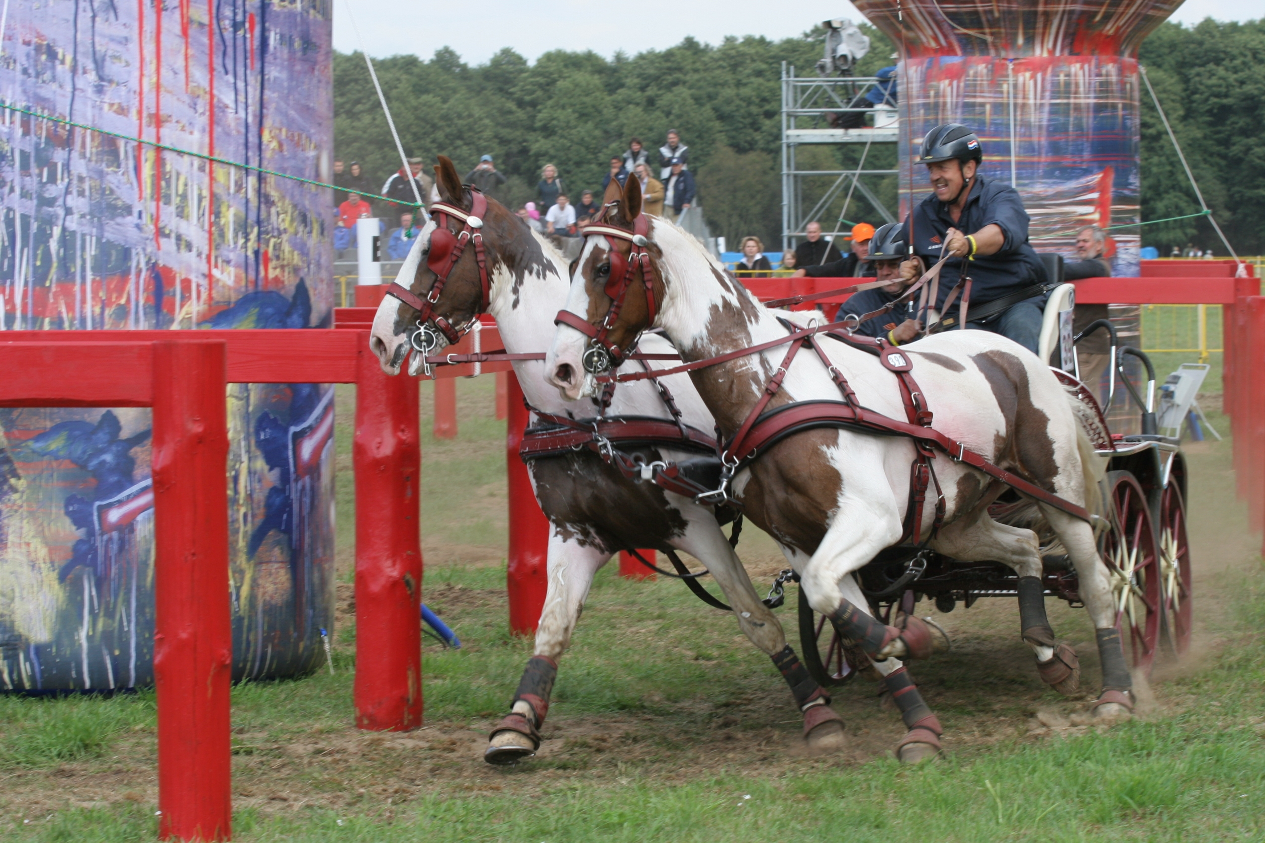 Harrie Verstappen, Netherlands, competes in the World Horse Pairs Championship, Warka, Poland, 2007, with a pair of coloured Gelderlander horses, seen here negotiating an obstacle.